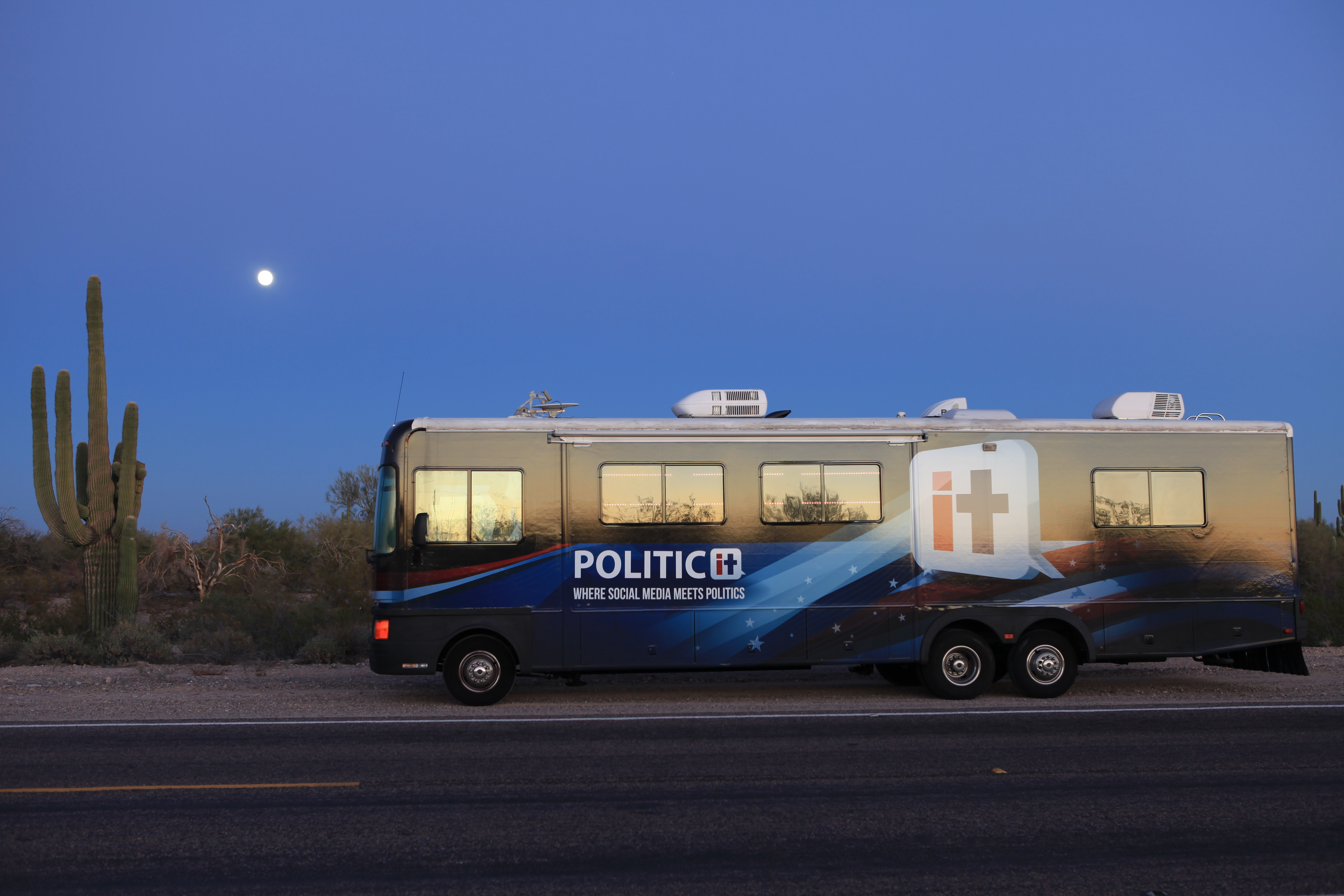 This photo of the PoliticIt Mobile bus was taken in the Phoenix, Arizona greater metro area. The PoliticIt Mobile bus was on a 48-state tour at the time. Team members of the bus were interviewing politicians running in the 2012 election cycle.